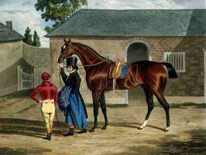 Painting of the British racehorse Antonio ca. 1822 by John Frederick Herring, Sr. (1795-1865). Artist dead for 147 years.